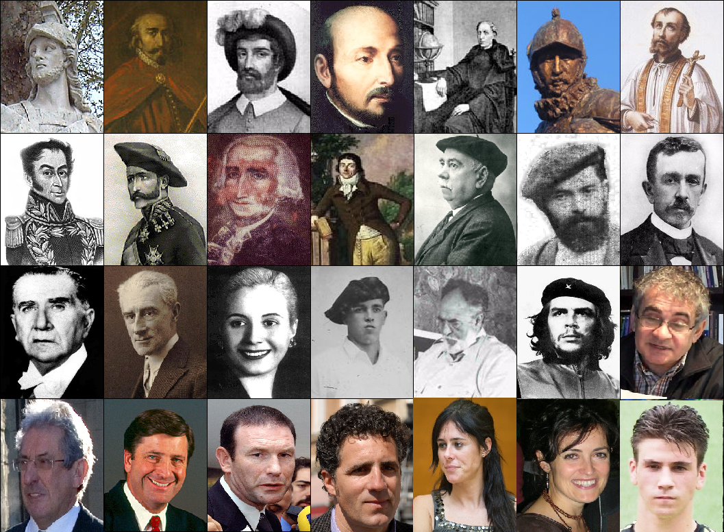 Collage of photos of 28 people of Basque descent by order of birth 1st row: Íñigo Arista - Sancho III of Navarre - Juan Sebastian Elcano - Ignacio de Loyola - Andrés Urdaneta - Juan de Oñate - Francis Xavier 2nd row:Simón Bolívar - Tomas Zumalacárregi - Don Diego de Gardoqui- Dominique Joseph Garat - Biktoriano Iraola - Sabino Arana Goiri - Federico Errázuriz Echaurren 3rd row:Emílio Garrastazu Médici - Maurice Ravel - Eva Perón - Atano VII - Nestor Basterretxea - Ernesto "Che" Guevara -Luis Mariano 4th row:Pedro Miguel Echenike - John Garamendi - Juan José Ibarretxe - Léopold Eyharts - Manu Chao - Estitxu Fernandez - Mikel Arteta Amatrain Seven of them belong to the Basque diaspora